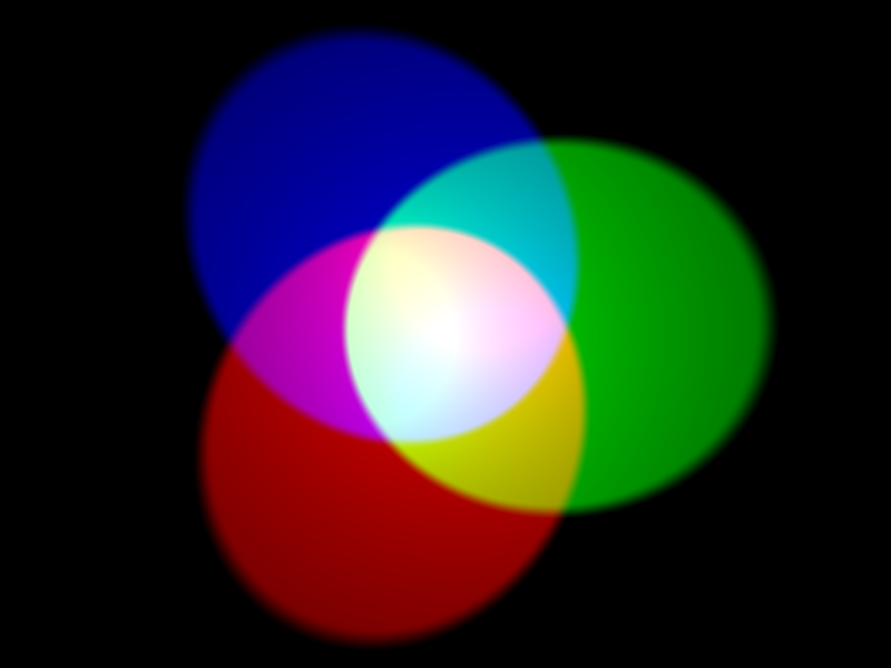 Additive color mixing. Reflectors simulated in Blender 3D.